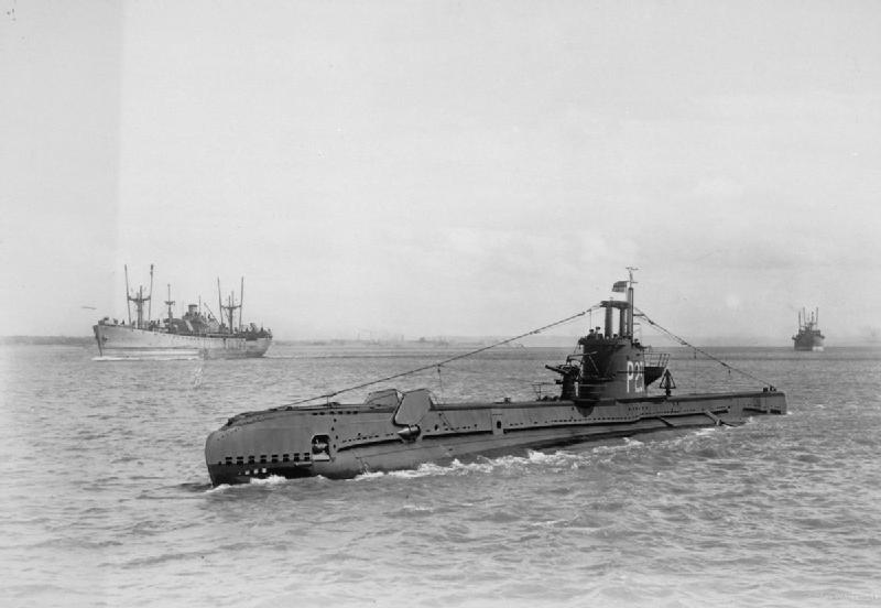 British S class submarine HMSM STOIC underway on completion at Liverpool.